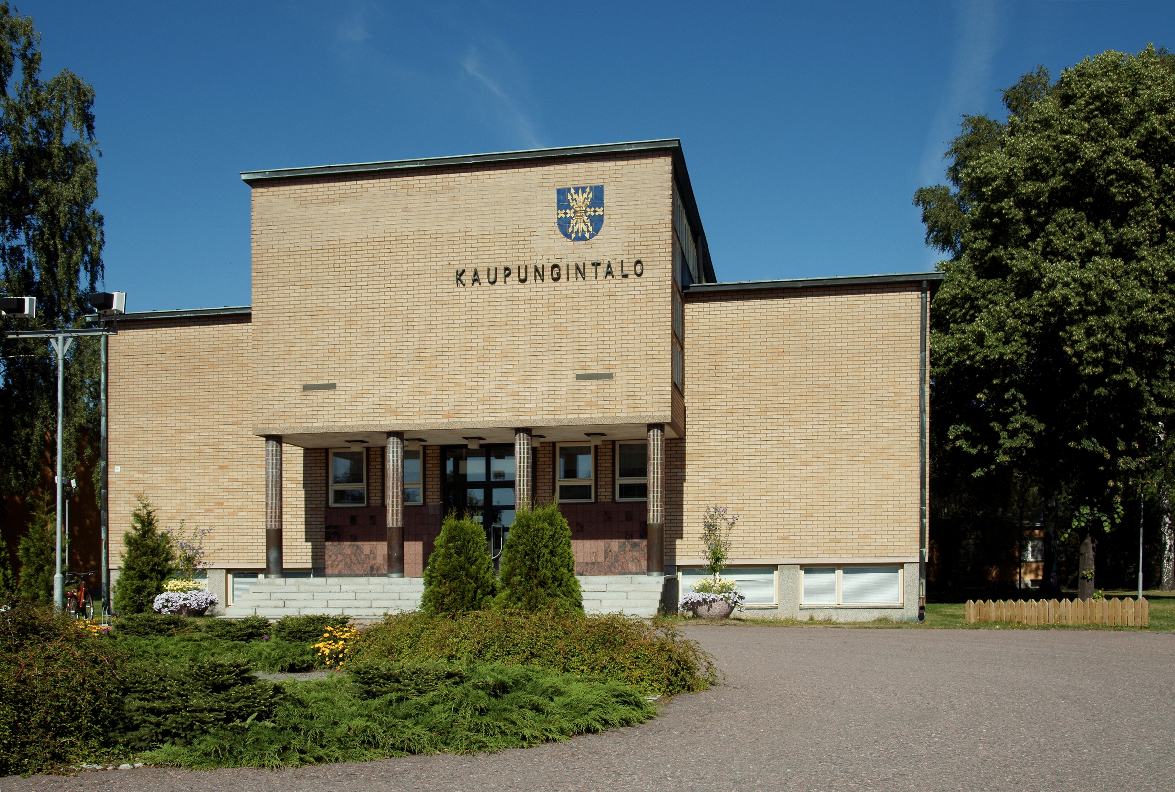 Harjavalta town hall.